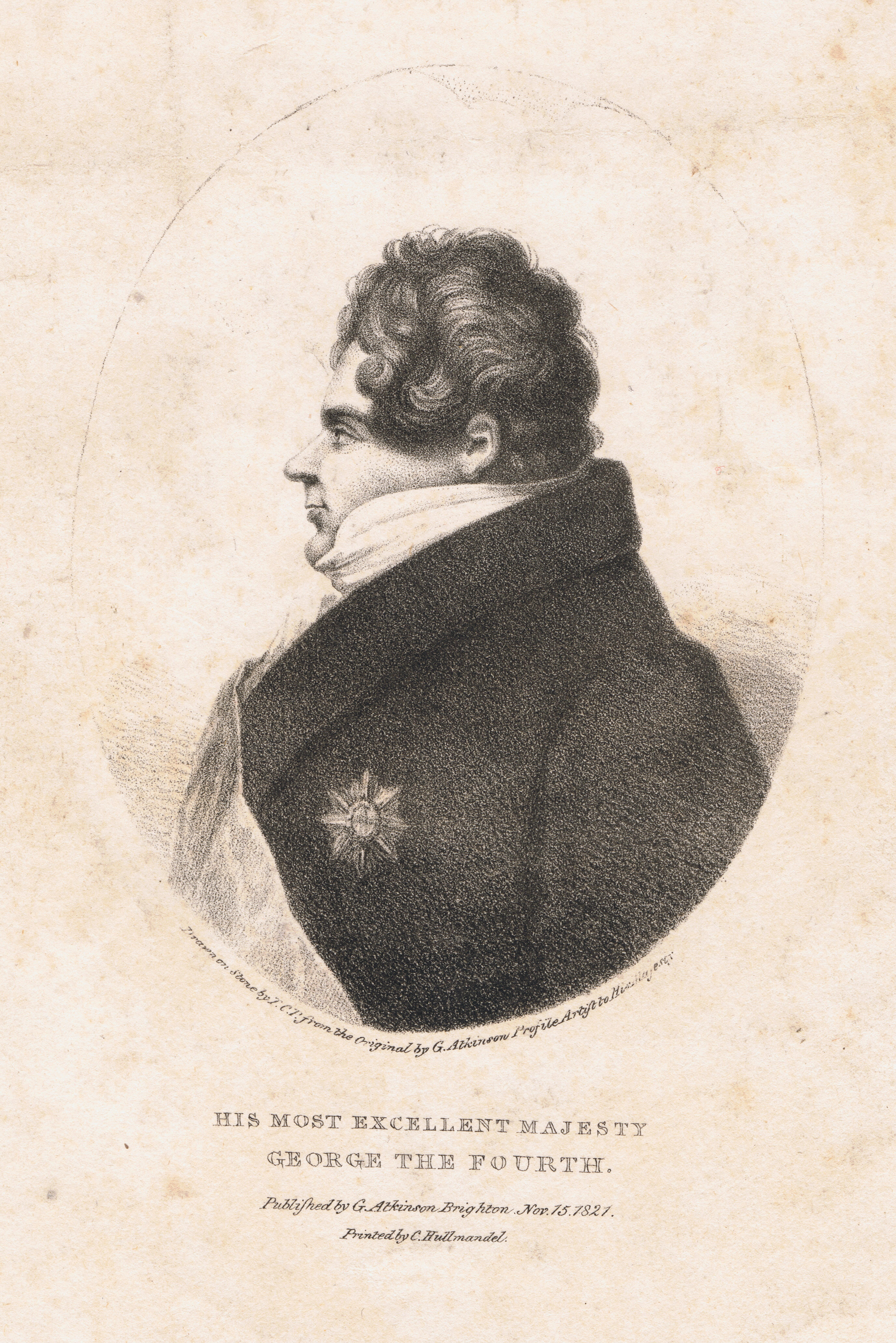 Scan (by me, R. de Salis, Rodolph (talk) 22:39, 6 February 2015 (UTC)) of a lithograph of His Most Excellent Majesty George the Fourth, drawn on stone by T.C.P., from the original by George Atkinson, profile artist to His Majesty, printed by C. Hullmandel, published by G. Atkinson, Brighton, November 15, 1821.